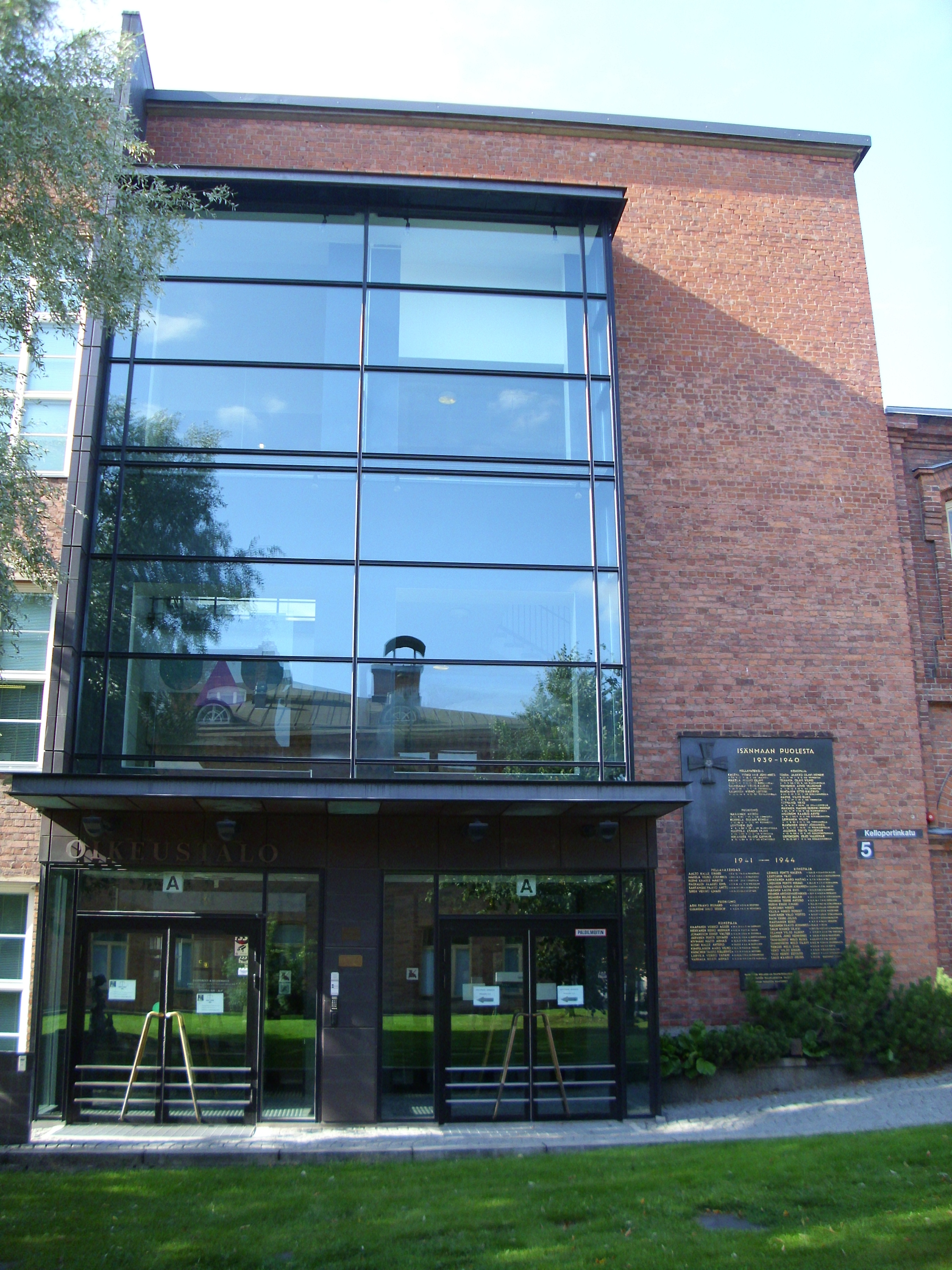 Pirkanmaan käräjäoikeus (Court for Pirkanmaa area), Tampere, Finland